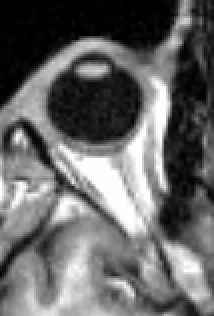 This image an MRI image of the left eye of the author. It was scanned with a 1.5 Tesla clinical scanner. The image was manipulated (rotated) using the excellent MRIcro. This image may be freely used, please attiribute image to Genesis12